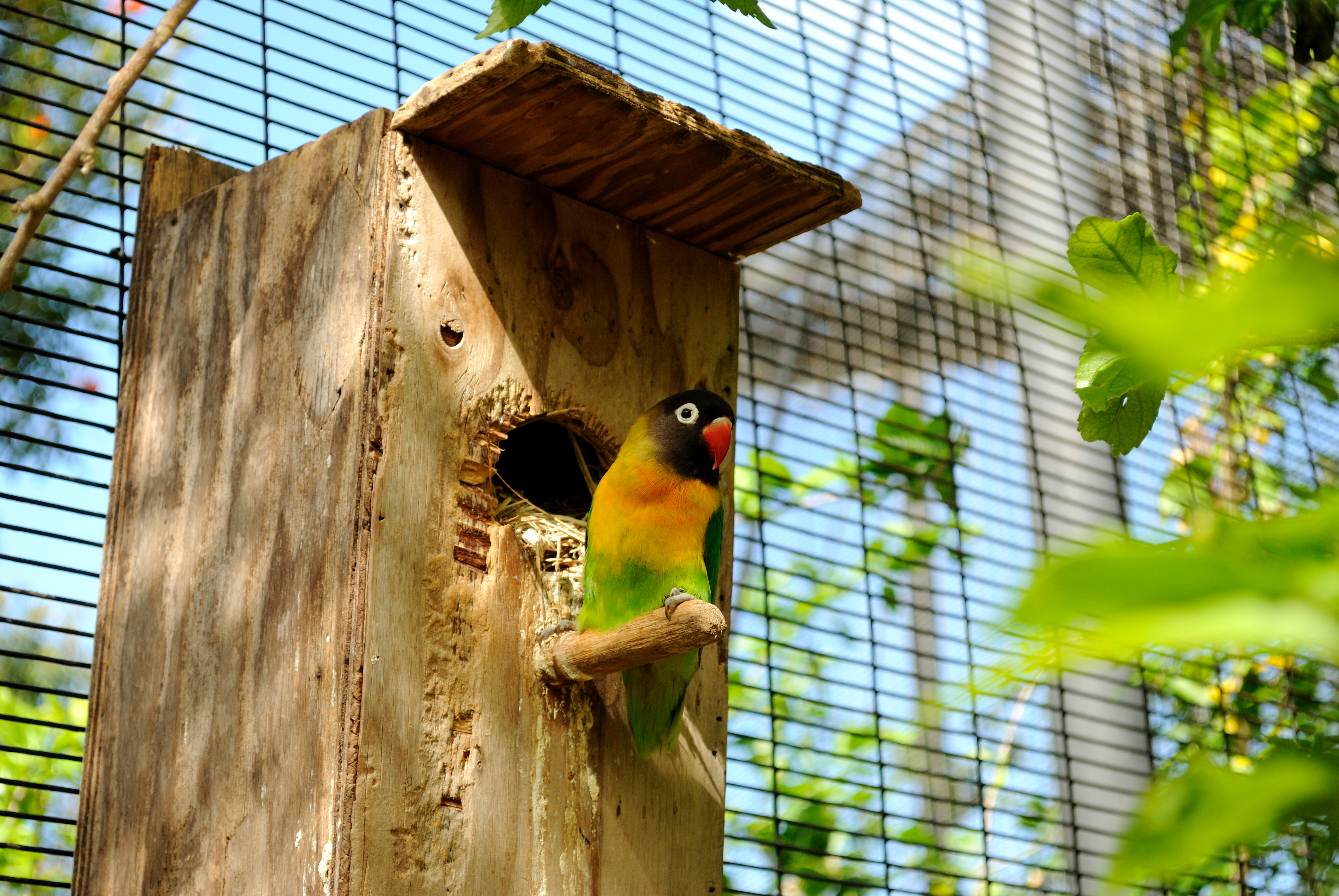 A Yellow-collared Lovebird at Honolulu Zoo, Hawaii, USA. It is perching by the entrance to a nestbox.